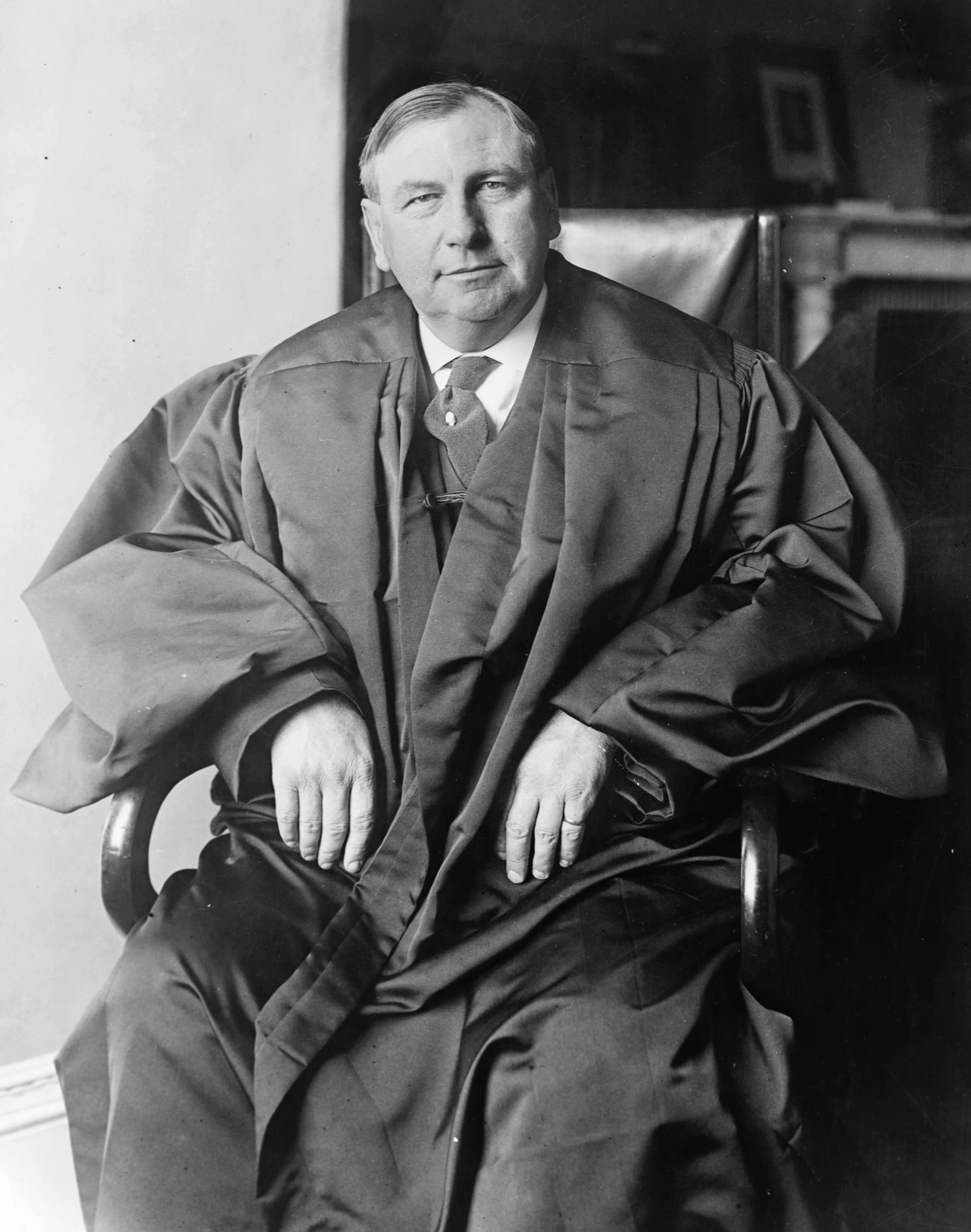 Harlan Fiske Stone, Chief Justice of the United States. The left side of Stone's face was darkened by the uploader for more uniformity.